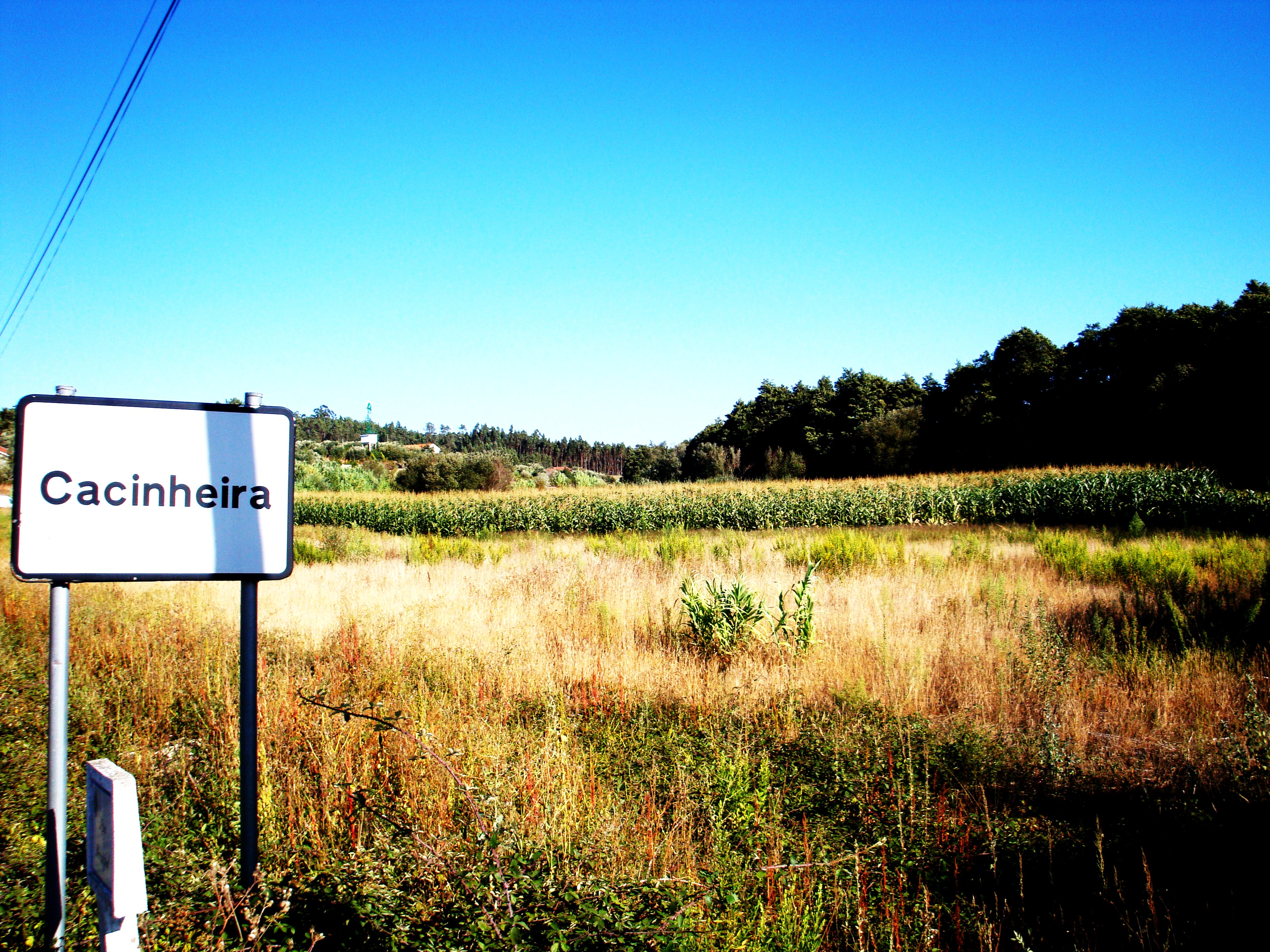 concept image